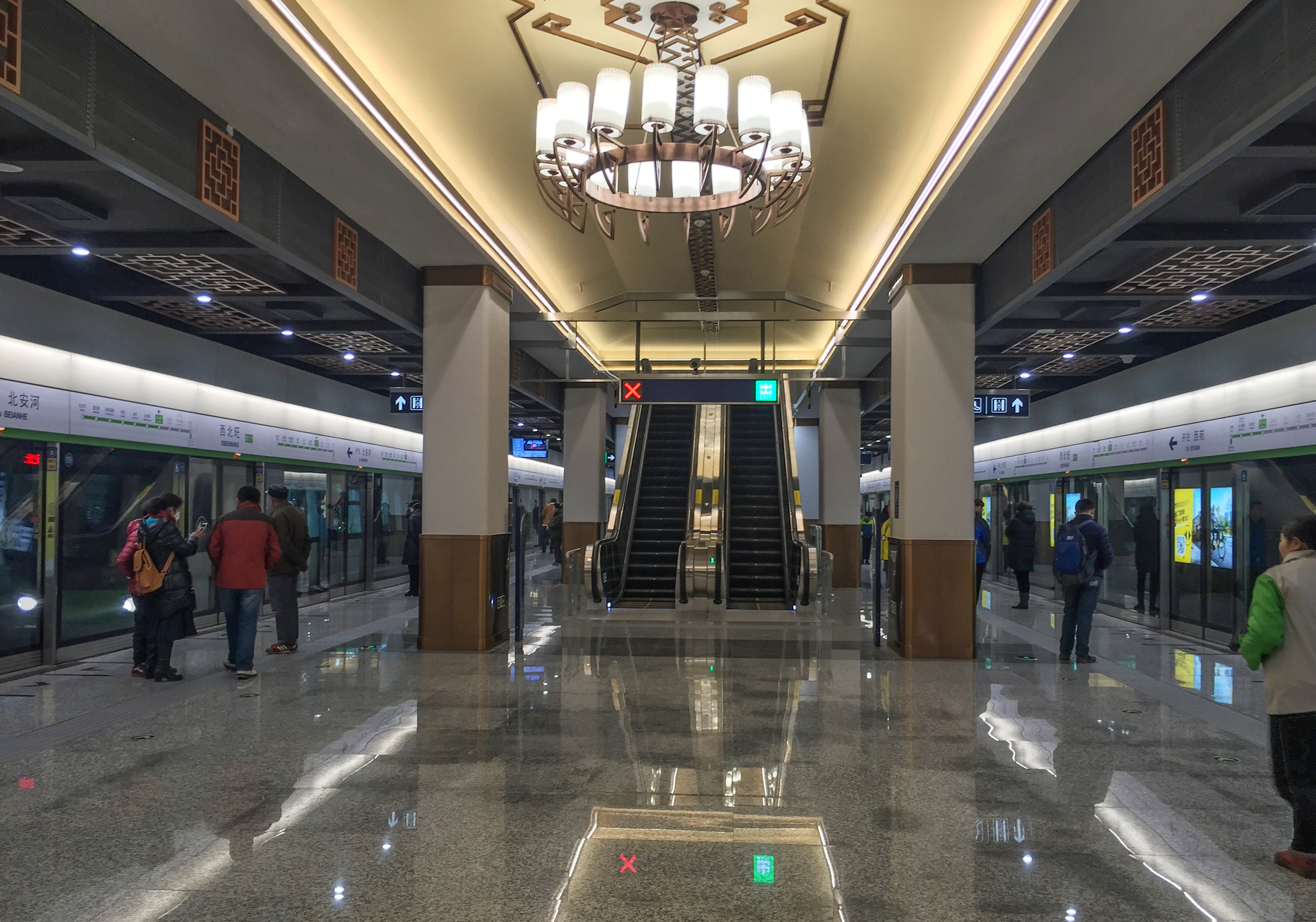 The closest station to Houchangcun.